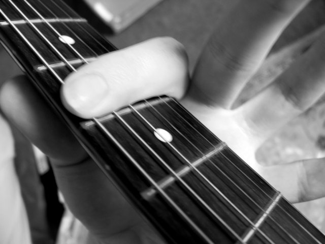 A second shot of a barre chord (minus the chord)